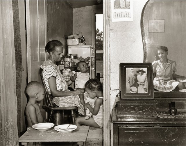 Farm Security Administration photo by Gordon Parks of Mrs. Ella Watson with three grandchildren and her adopted daughter. Washington, D.C.